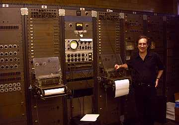 RCA Mark II Sound Synthesizer (designed by Herbert Belar and Harry Olson at RCA Victor)